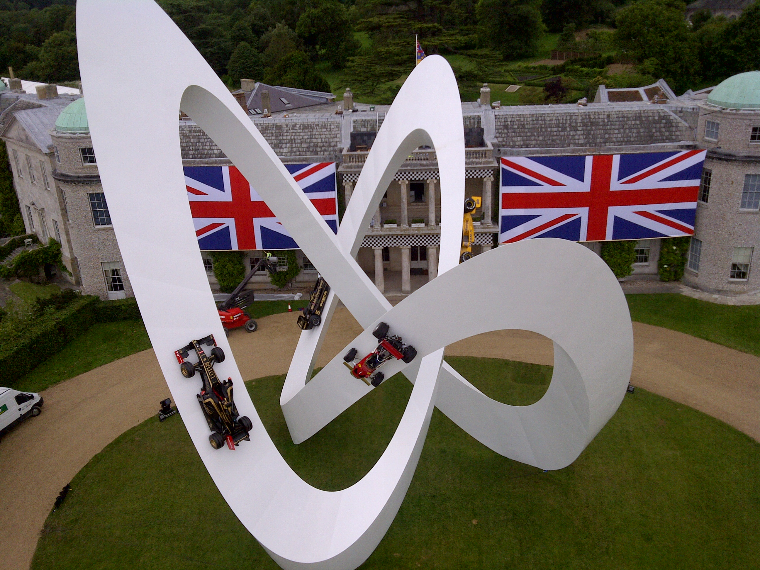 Photo: Andy Mottershaw Artist: Gerry Judah Engineer: Bruno Postle, Capita Symonds Fabrication: Littlehampton Welding